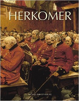 art book